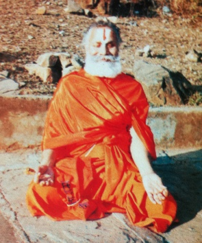 Jagadguru Rambhadracharya meditating on the rocks on the banks of Mandakini river in Chitrakuta, India during one of his Payovratas (six-month milk and fruit only diet). He is seated in the Sukhasana and his hands are in the Dhyana Mudra.